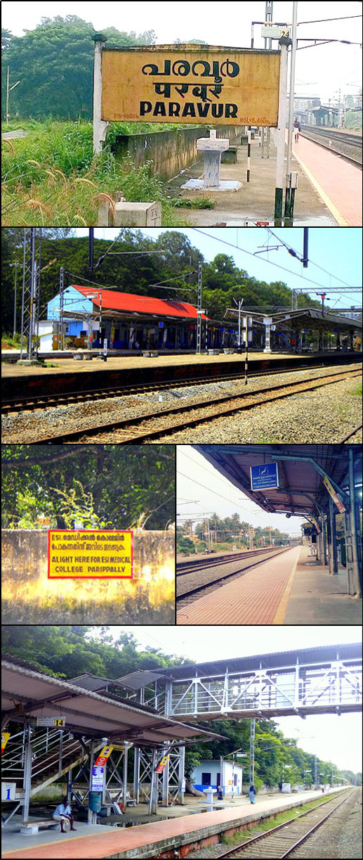 Paravur railway station is an important railway station in Kollam Metropolitan Area